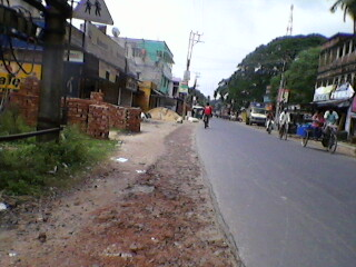 National highway 35, Jessore road view 2011, bijoynagar, Barasat, North 24 parganas, West Bengal, India